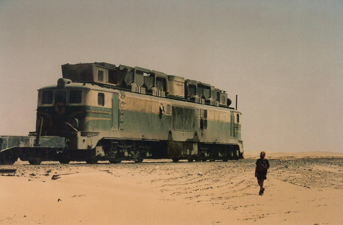 SNIM Alsthom locomotive no CC05, on the Mauritania Railway between Nouadhibou and Zouerate, northern Mauritania. The "skyline casing" on the locomotive's roof houses special filtration equipment, to deal with the sandy and dusty Saharan atmospheric conditions evident in this photo.